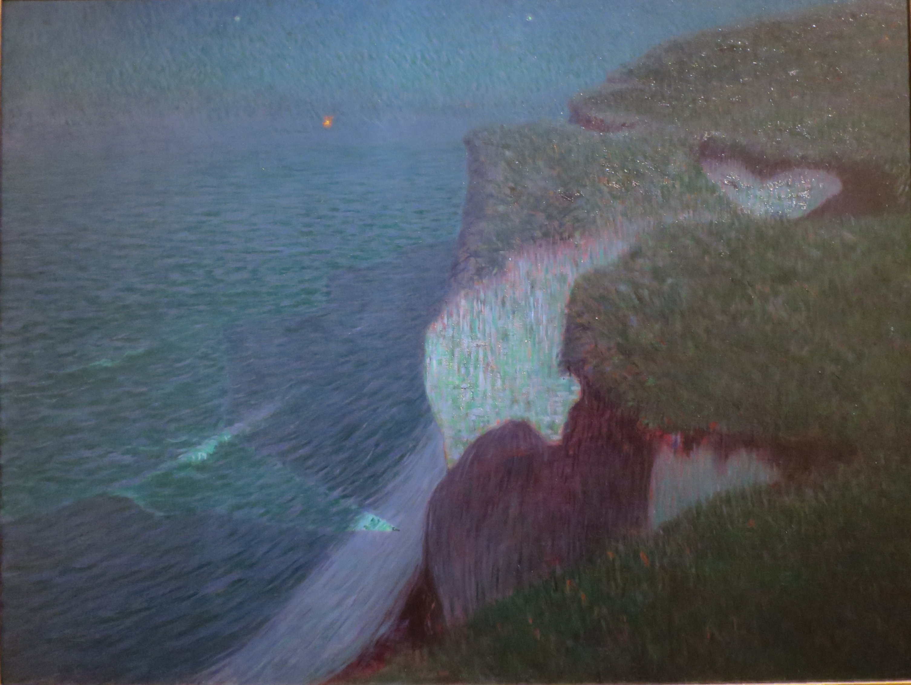 The Cliffs at Mesnilval